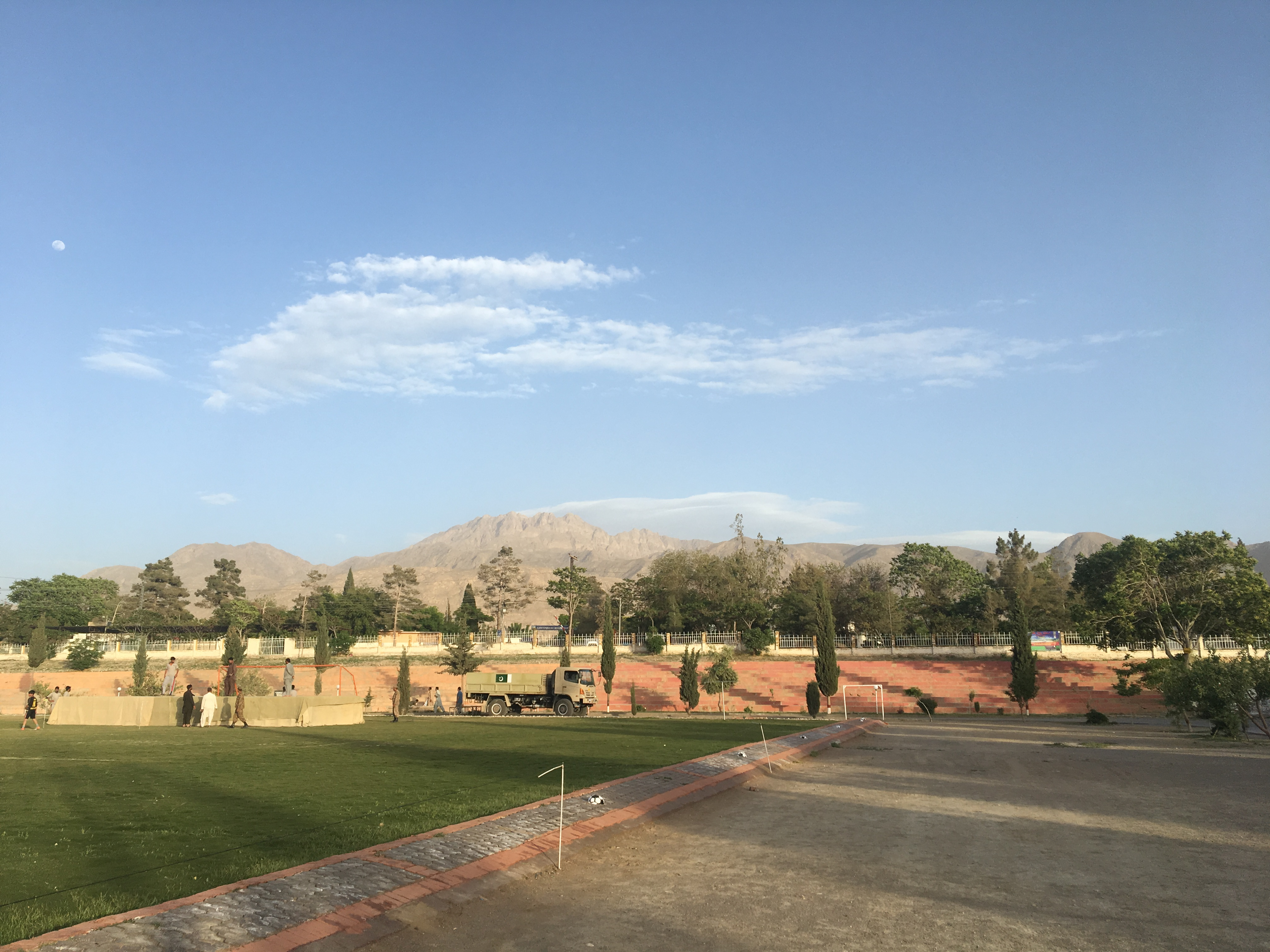 A popular place woth jogging track & other sports training facilities in Quetta cantt